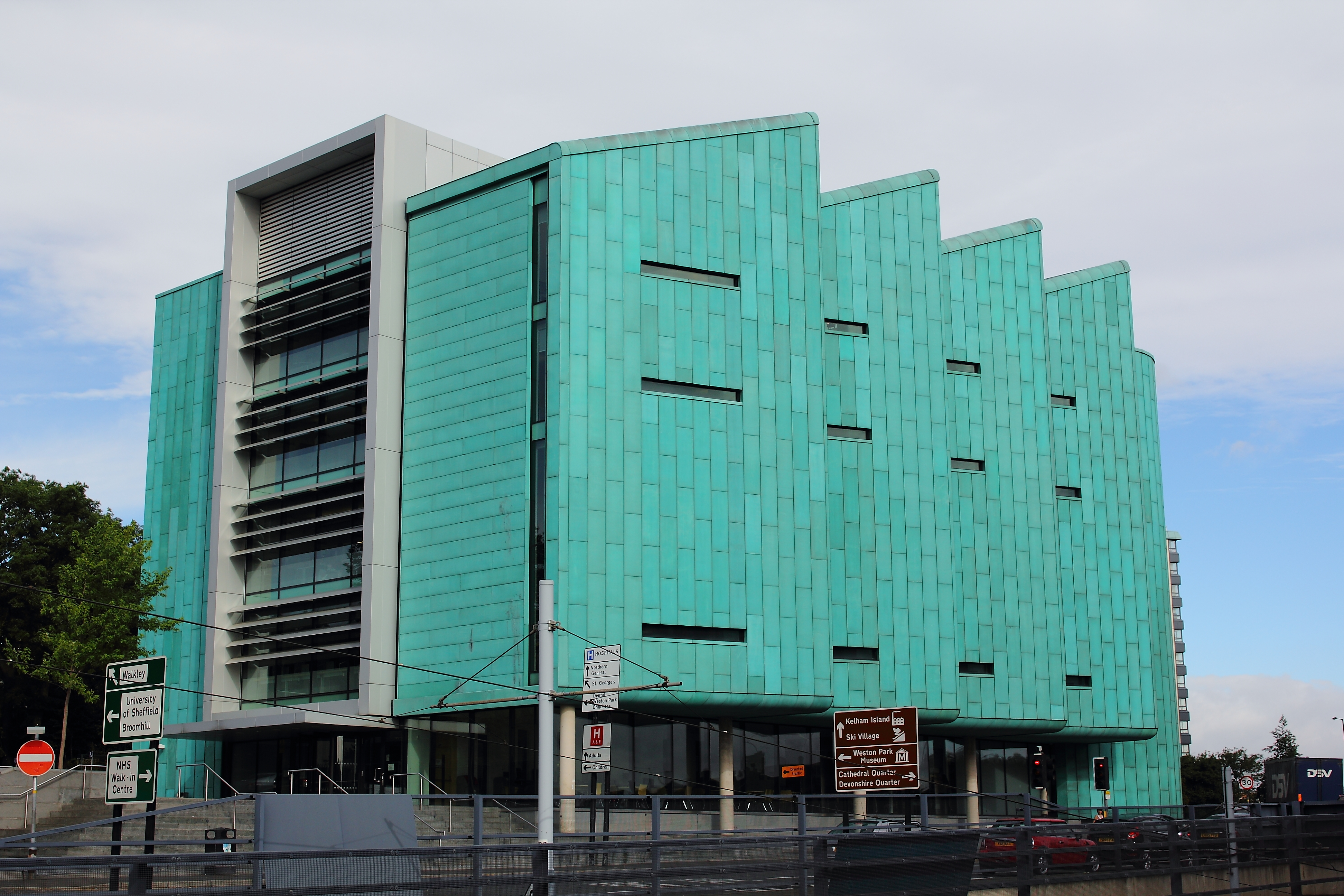 Shefuniic2012